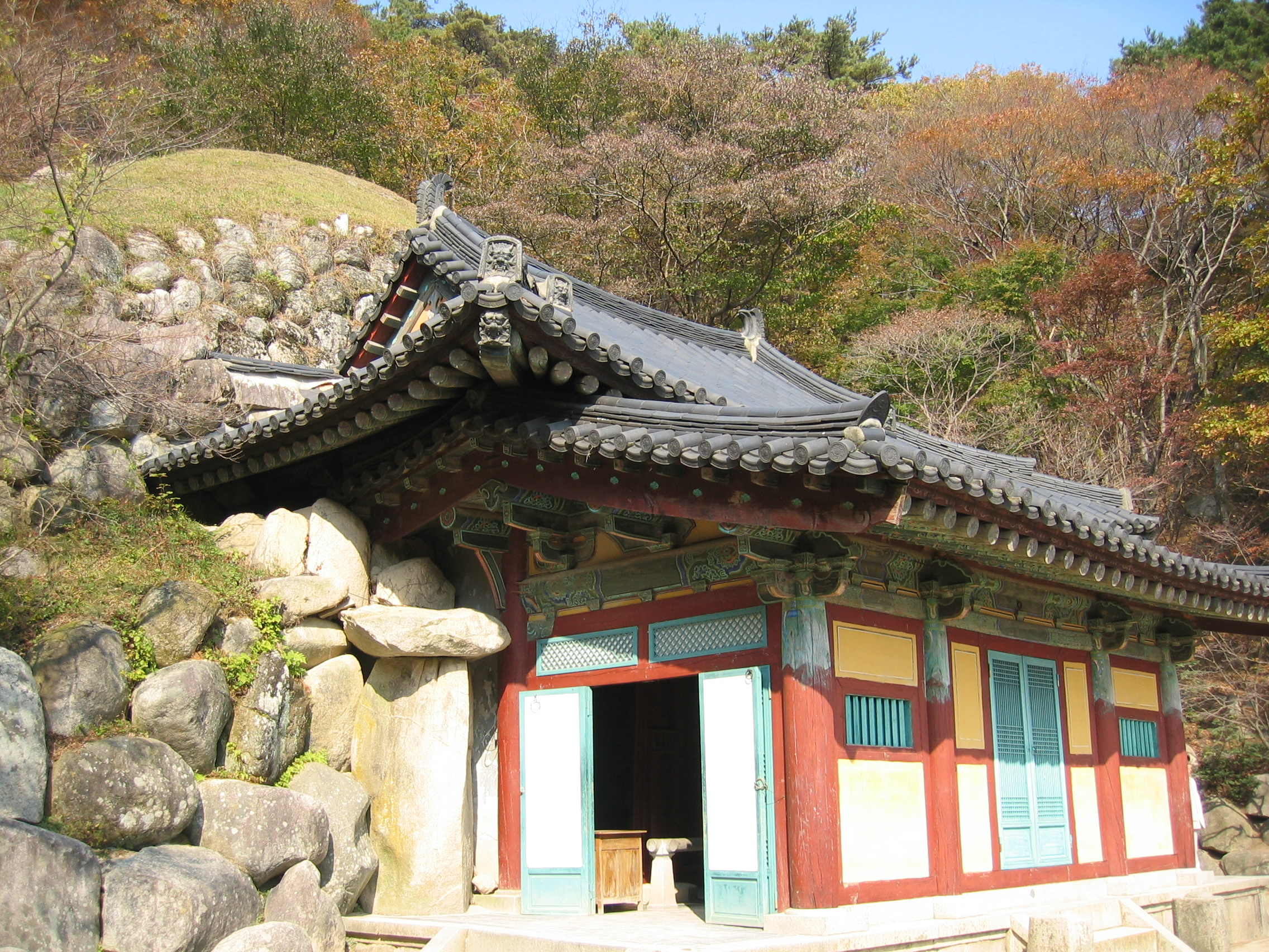 Seokguram Grotto in Gyeongju, South Korea